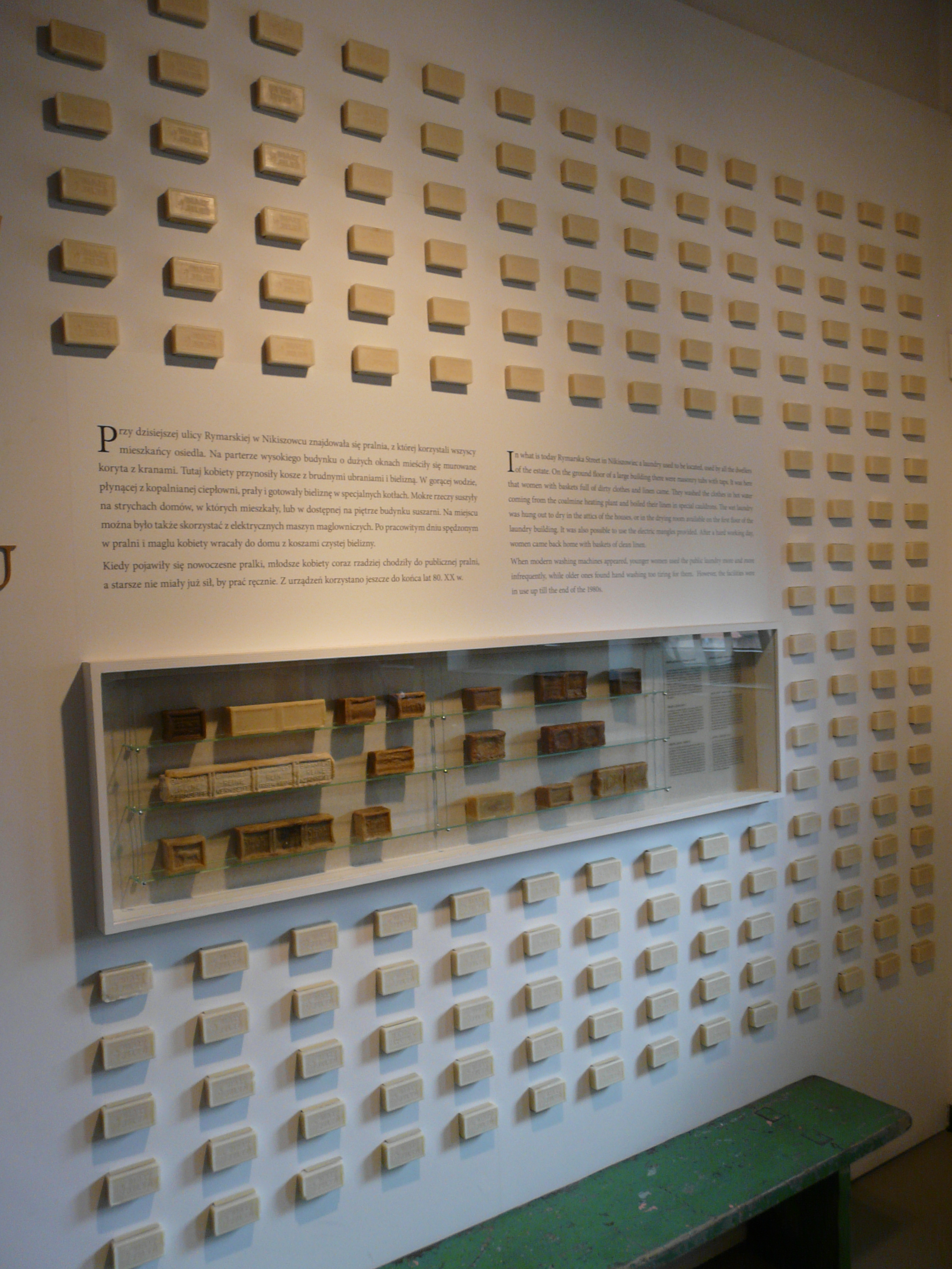 Katowice, Nikiszowiec. Muzeum Historii Katowic. From the collections: "U nos w doma na Nikiszu" (depictions of average households, pics 18-49) and "Woda i mydło najlepsze bielidło" (depictions of communal laundry, pics 5-17).